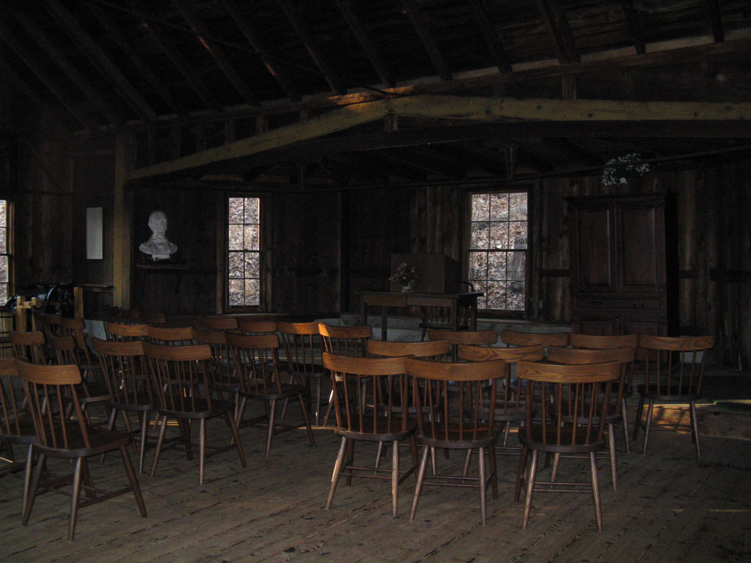 Inside the Concord School of Philosophy, Concord Massachusetts, November 2009